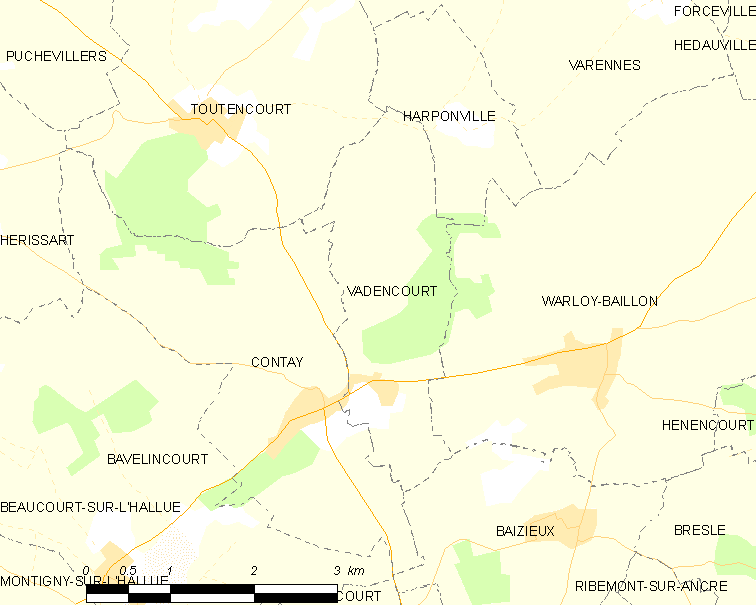 Map of French municipality Vadencourt